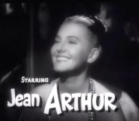 Cropped screenshot of Jean Arthur from the trailer for the film A Foreign Affair